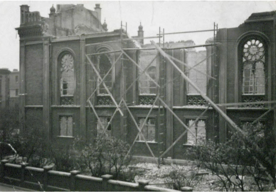 Destruction of the synagogue of Königshütte (Chorzów now in Poland) destroyed by the nazis in 1939